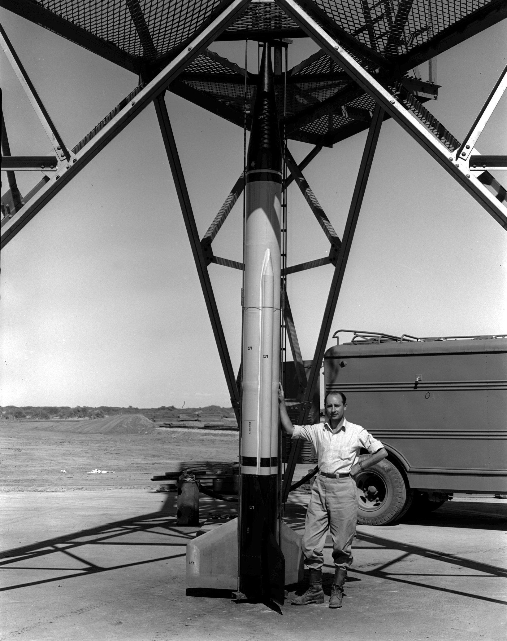 Project director Frank J. Malina (a former JPL Director) poses with the fifth WAC Corporal at the White Sands Missile Range. The solid-propellant booster is not shown.